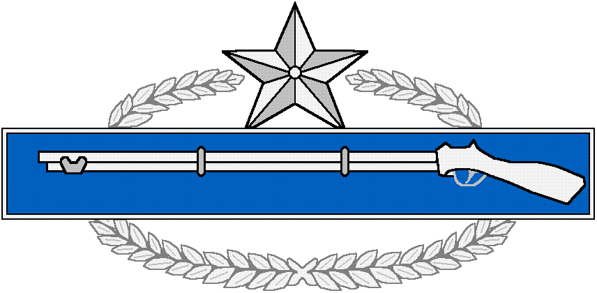 Insignia of Riot Control Course of Military Police of Parana State - Brazil.